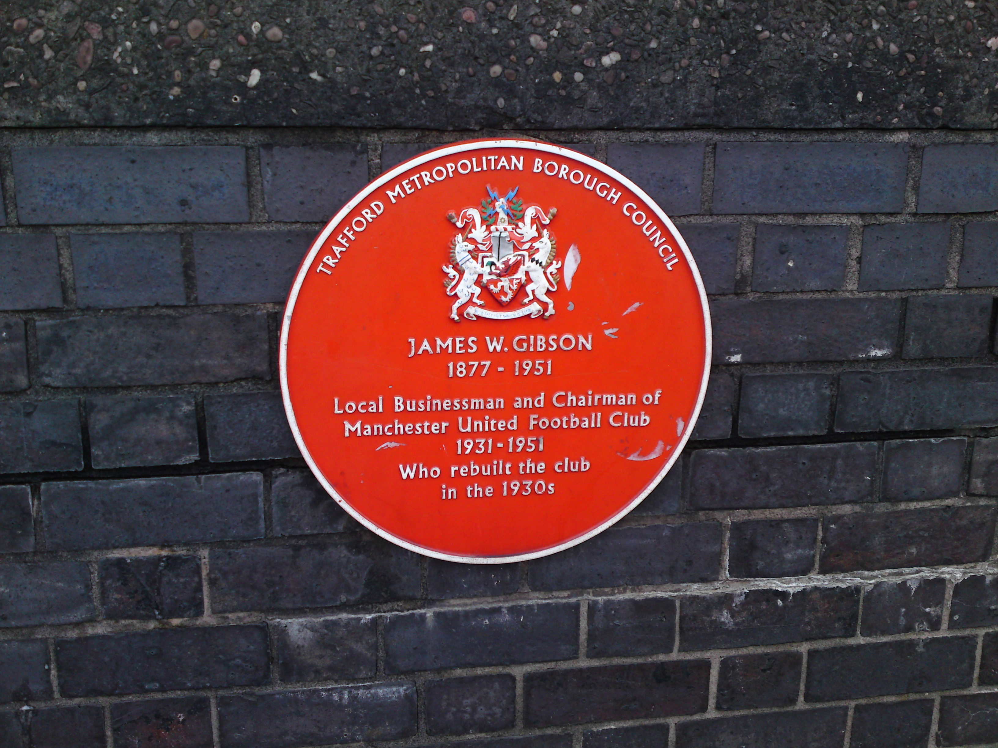 A plaque attached to the bridge over the railway on Sir Matt Busby Way commemorating the work of James W. Gibson, chairman of Manchester United from 1931 to 1951.